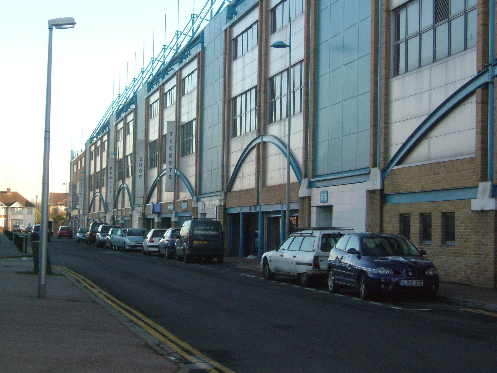 Priestfields Football Stadium, Gillingham, Kent. - Google Maps - Google Earth